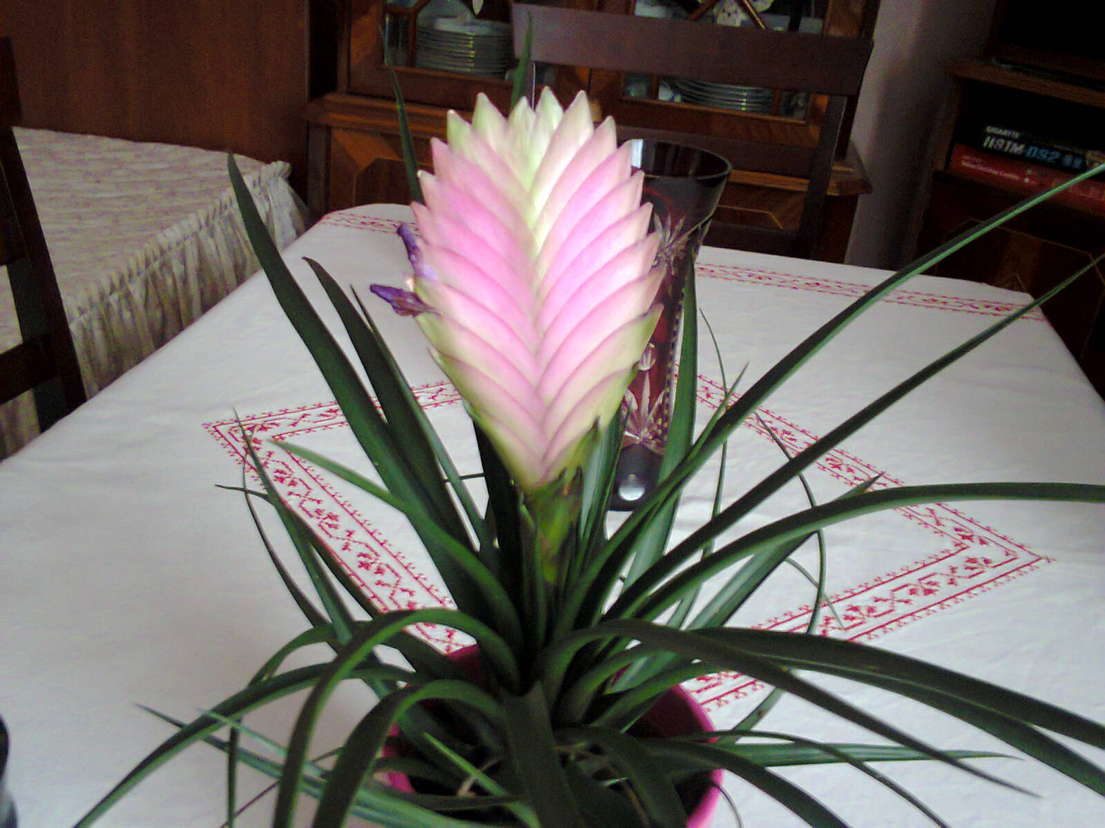 Pink quill (Tillandsia cyanea) as a houseplant in Lónyaytelep, Transylvania.